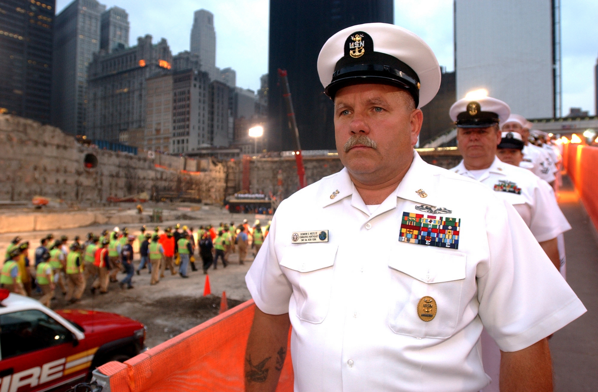 Master Chief Damage Controlman D. Westlye, Command Master Chief for Commander Naval Region Northeast, Detachment New York, leads a group of U.S. Navy Sailors into “Ground Zero” to render honors to the efforts of New York City, Police, Firefighters, and recovery workers at the site. Sailors were visiting New York during the 15th annual Fleet Week celebration. The event marked the final removal of the last remaining World Trade Center structure, Column Number 1001B of Two World Trade Center. The 30-foot column remained standing following the collapse of the twin towers, when terrorists flew two commercial airliners into both skyscrapers on September 11, 2001. The resulting collapse created a mountain of 1.8 million tons of steel and concrete. More than 3000 people perished in the attack.